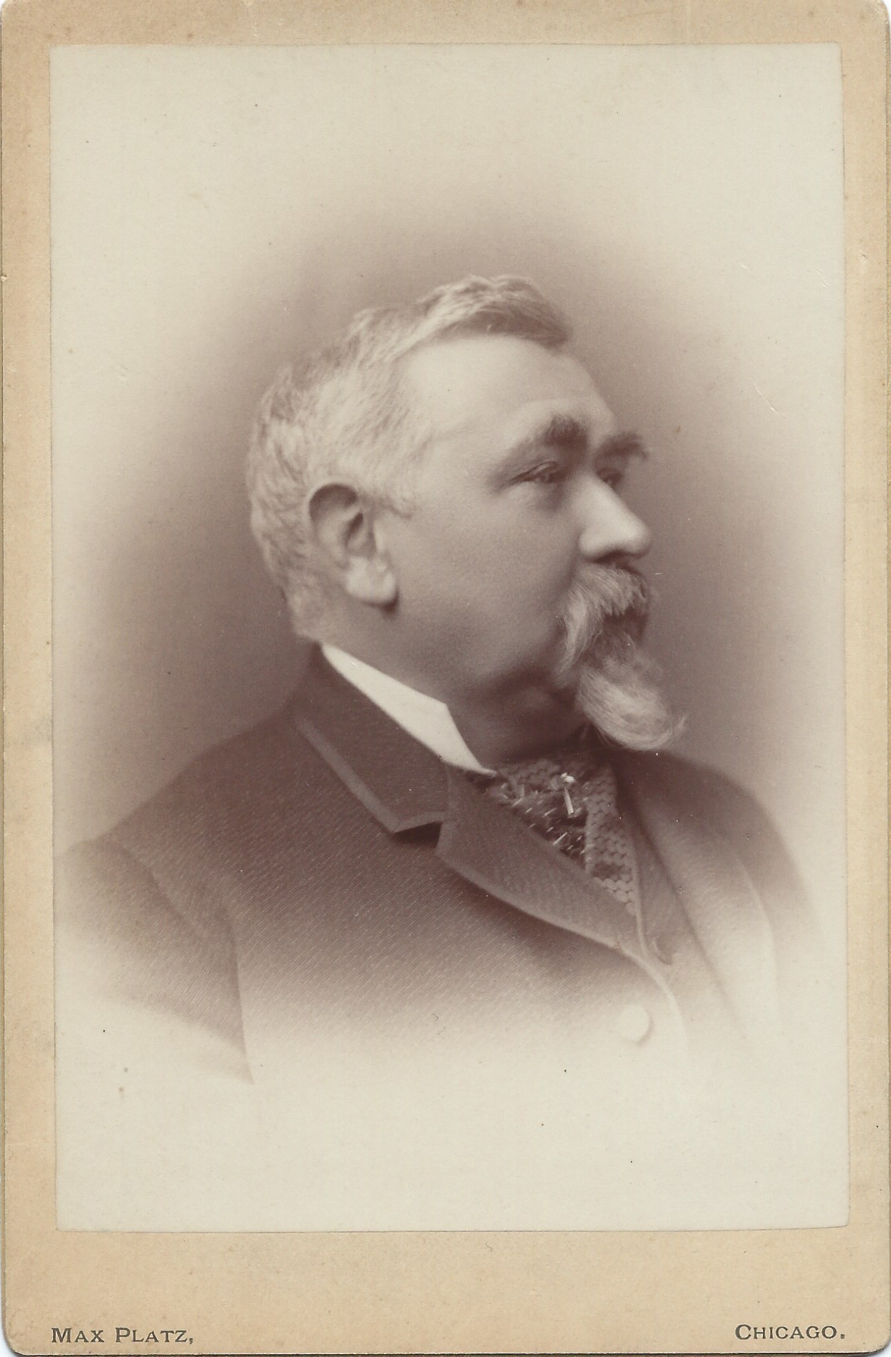 Portrait by photographer Max Platz, of Chicago, circa 1885 of German-American newspaper editor Hermann Raster.